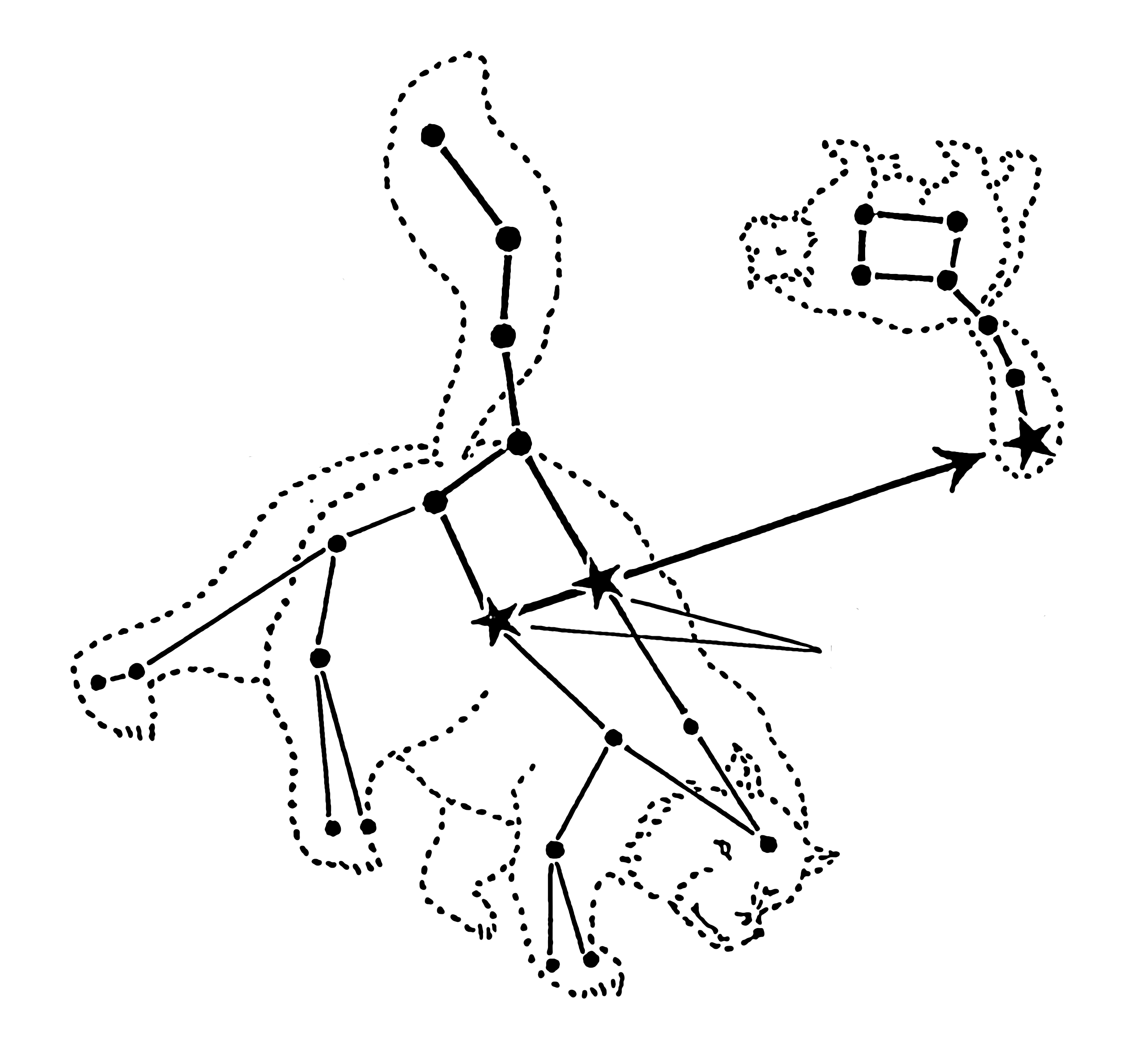 Line art drawing of the dipper constellations.